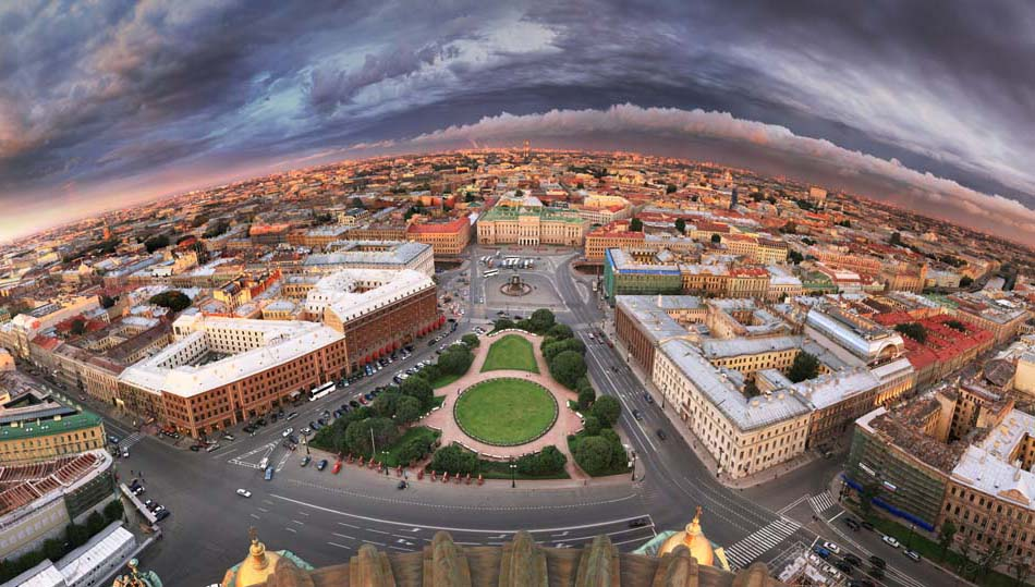 St. Petersburg. The view from the observation deck of St. Isaac's Cathedral